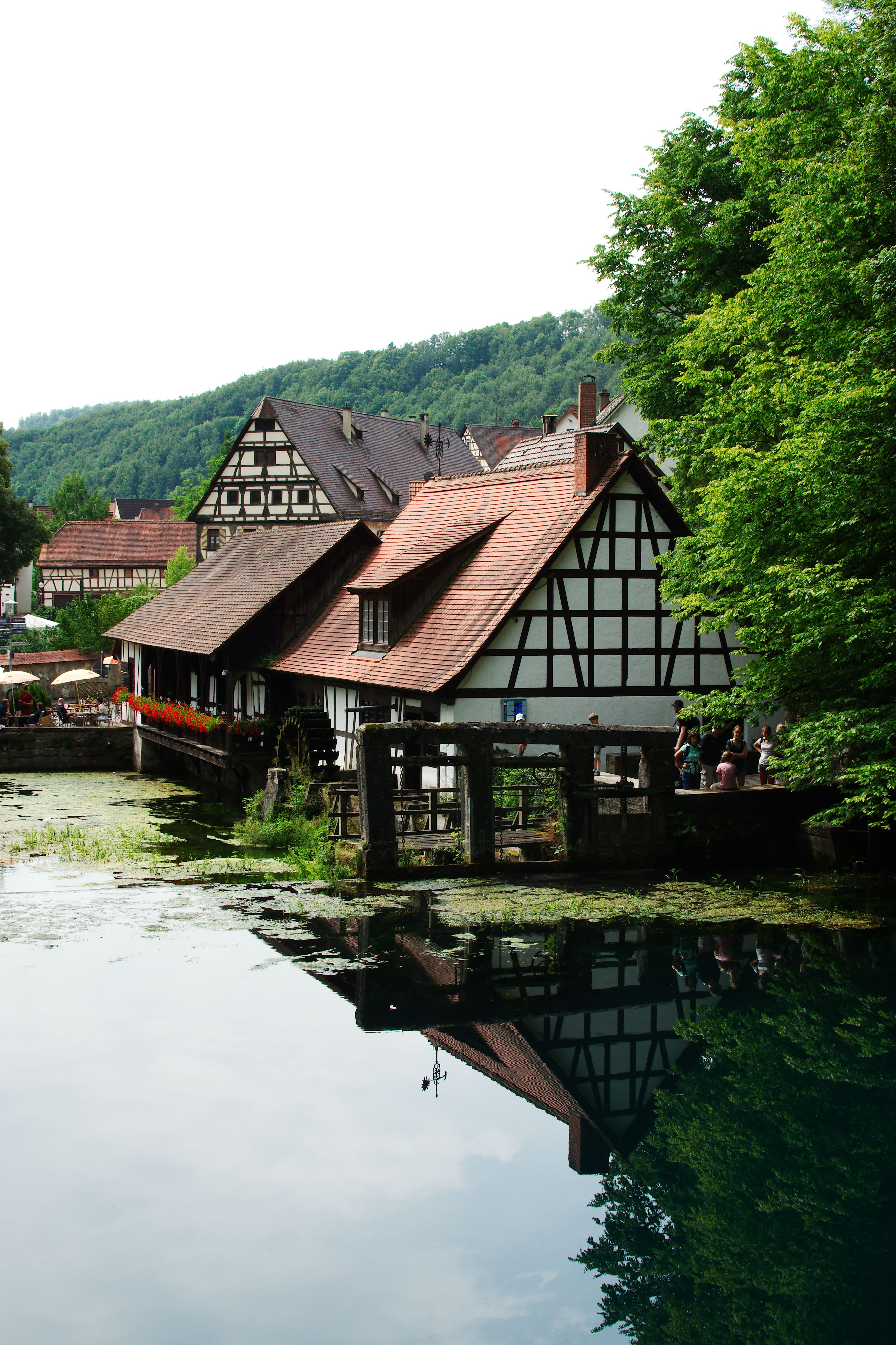 2014, Ausflug nach Blaubeuren